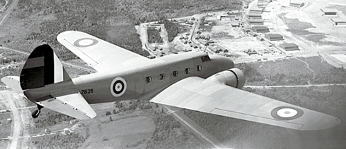 No. 121 RCAF Squadron Boeing 247D, c. 1939